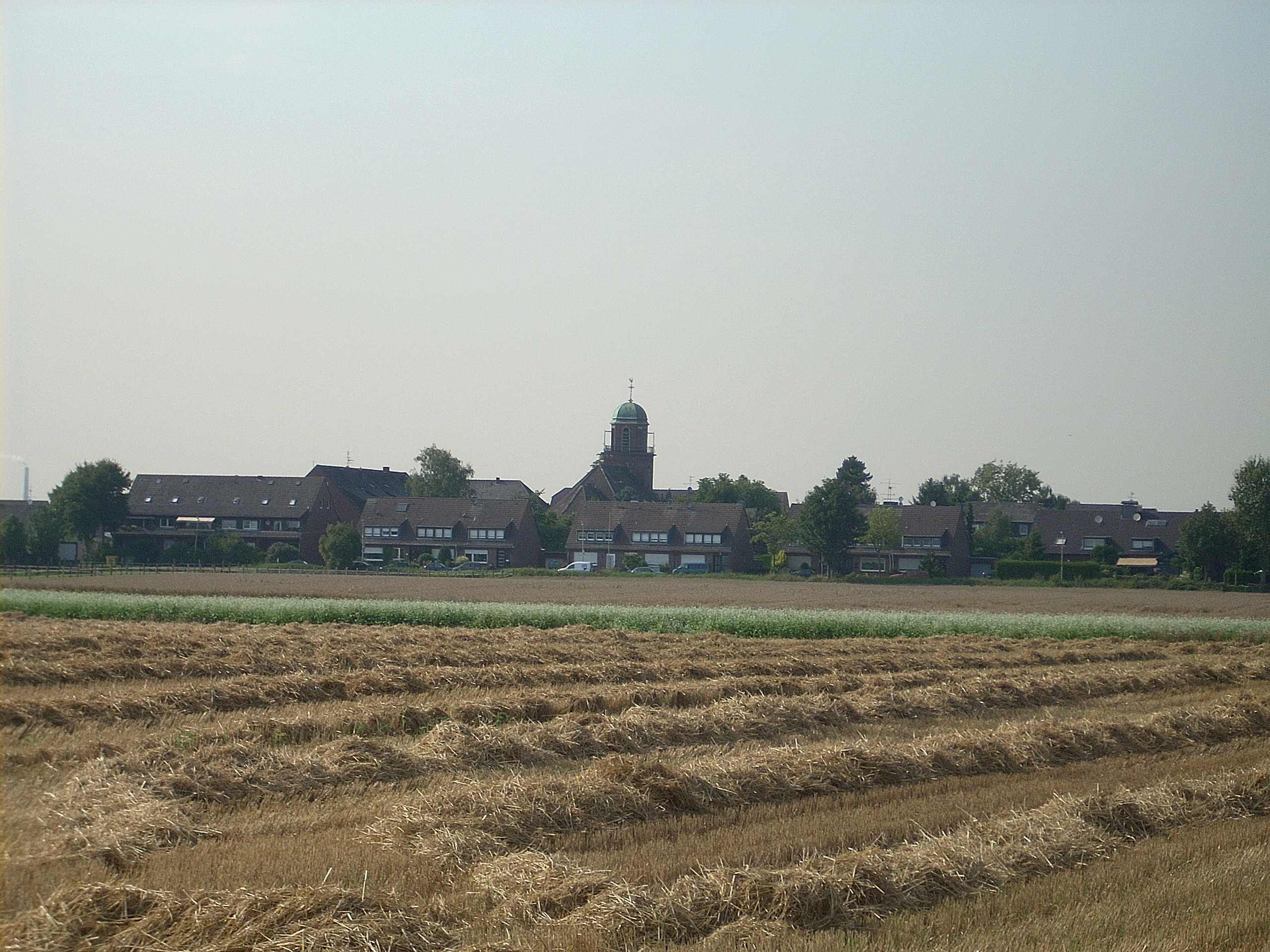 The Duisburg district Serm (photographed from the south) with the "Herz Jesu Kirche" (church) in the middle